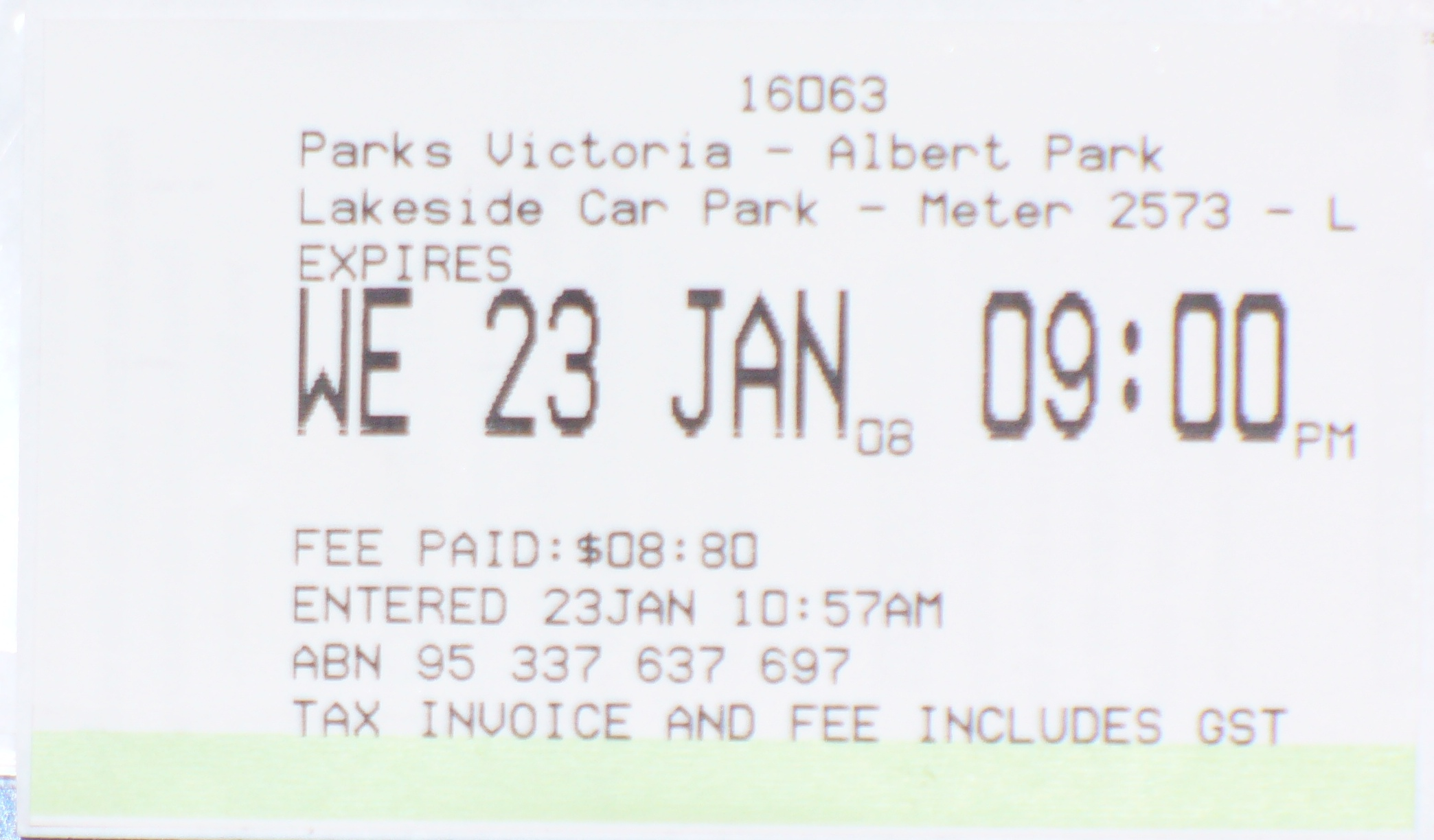 A pay and display ticket from Parks Victoria- Albert Park, Melbourne Australia.